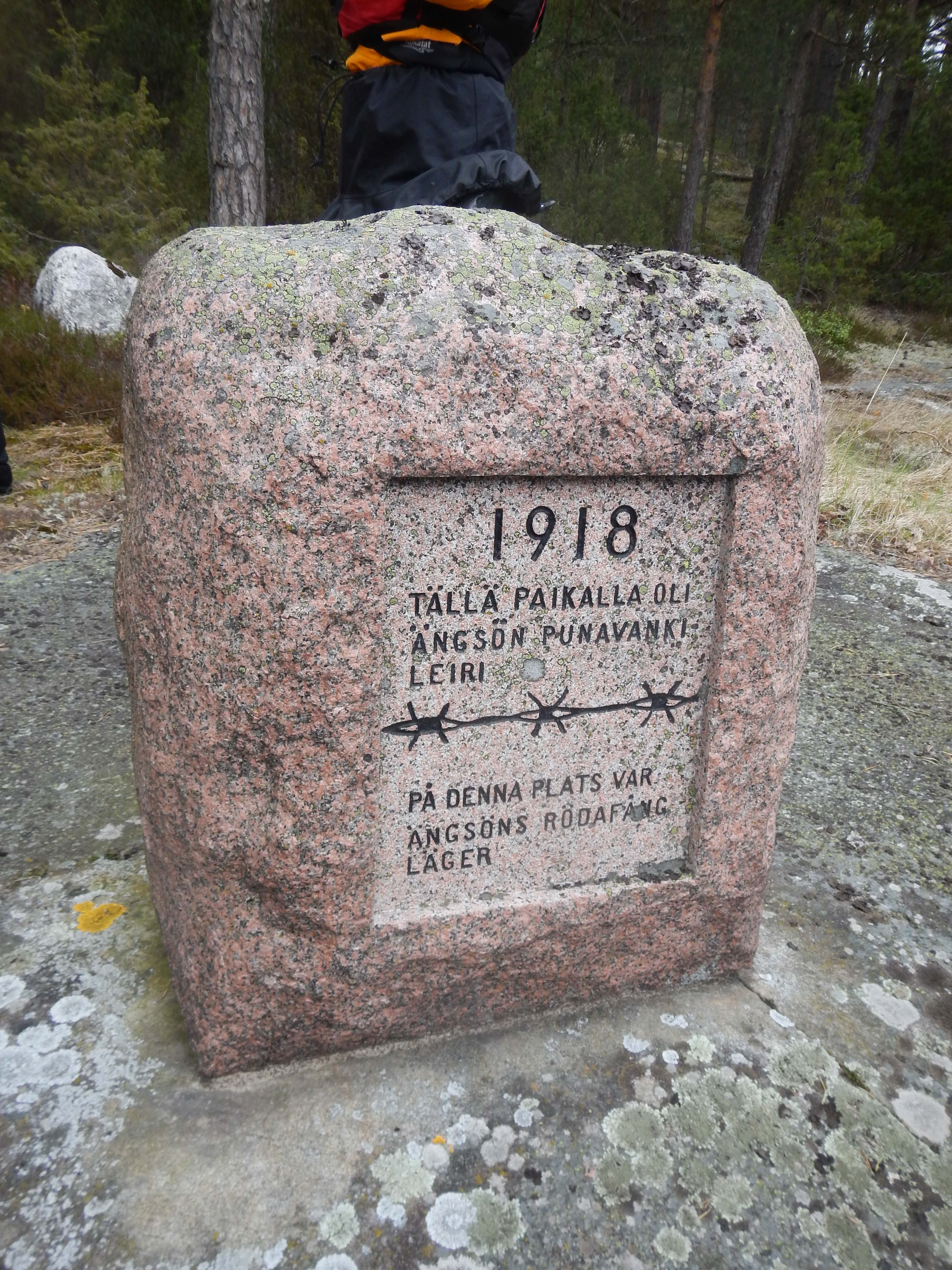 Stone raised in the 1990s to commemorate mostly non-local red prisoners taken during the Finnish Civil War